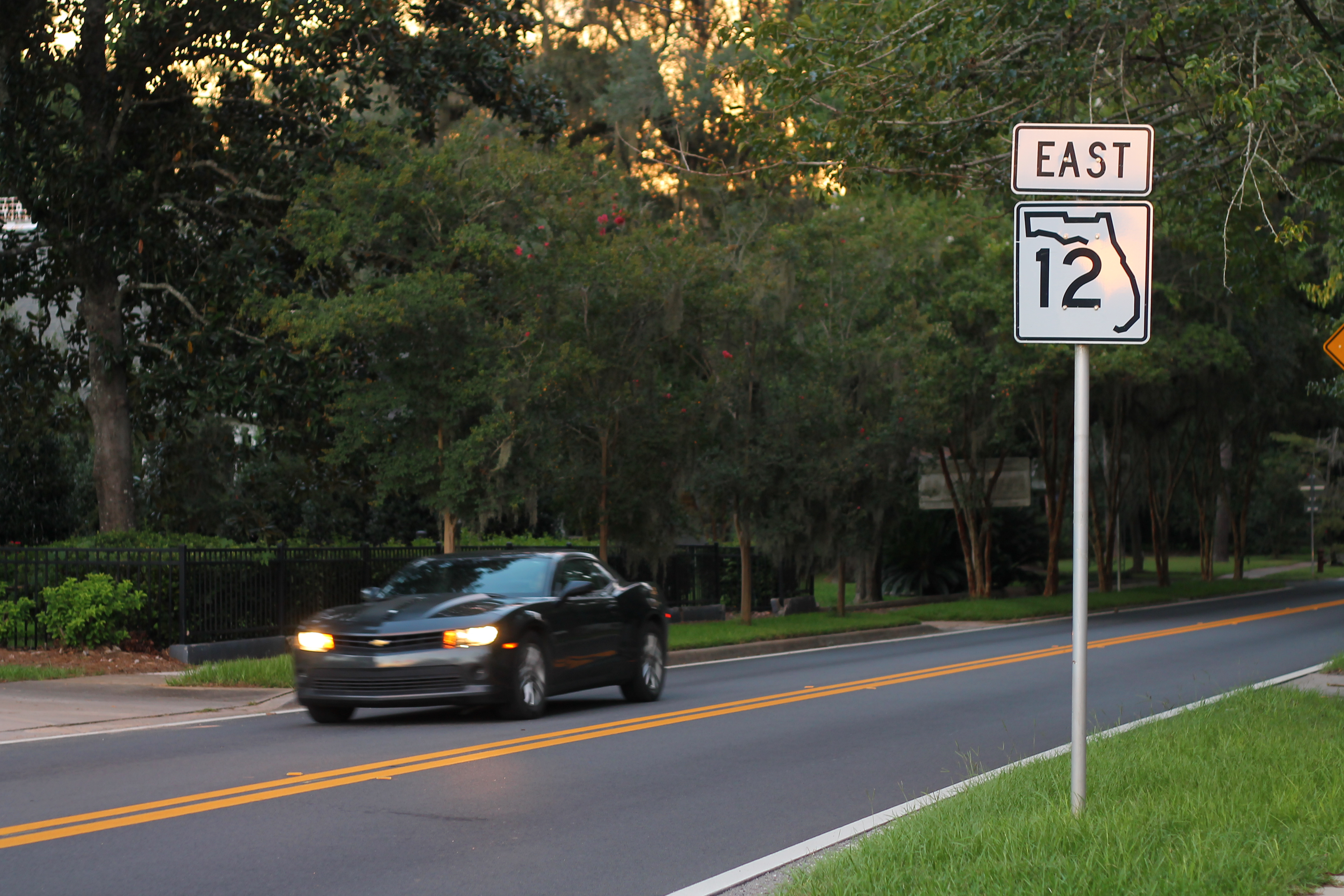 Florida State Road 12 in Quincy, Florida.